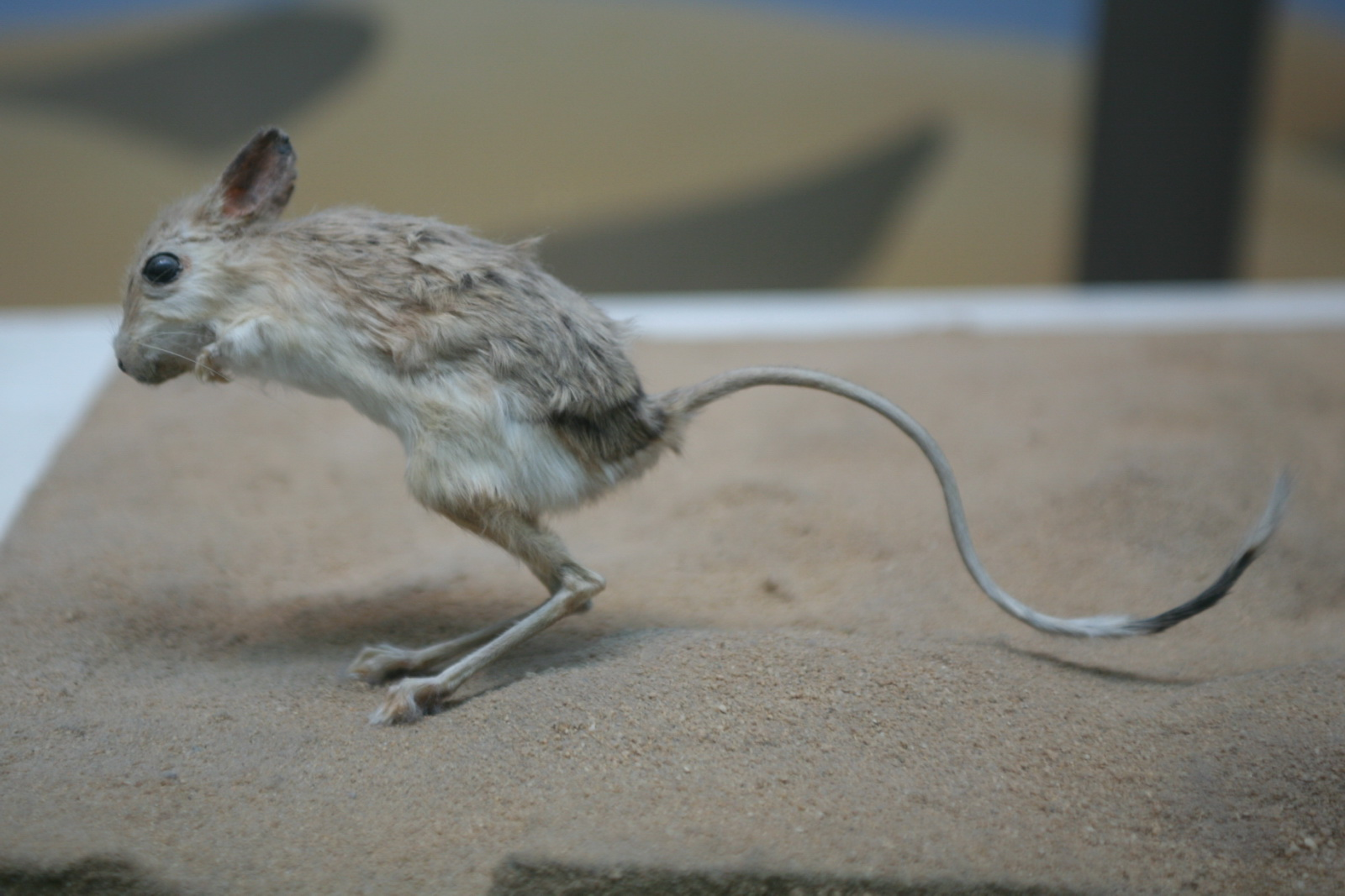 Jaculus jaculus can be found in central Asia, North Africa and Arabia in countries such as Sudan, Israel, and Morocco. The species is especially common in Egypt, where it gets its common name, Lesser Egyptian Jerboa. Jaculus jaculus lives in desert and semi-desert areas that can be sandy or stony. They can also be found in less numbers in rocky valleys and meadows. Jaculus jaculus is the smallest species in the genus Jaculus. It is very small with a darkish back and lighter colored underbelly. There is also a light-colored stripe across its hip. Jerboas are a lot like a tiny kangaroo in locomotion and posture. The hind feet are incredibly large, 50 to 75 mm, and used for jumping. Each hind foot has three toes. The tail is very long, 128 to 250 mm, with a clump of hairs at the tip which is used for balance. It has moderately large eyes and ears. Females are larger than males. Although lesser Egyptian jerboas lives in the desert, they do not drink, depending on the greens and insects that they eat to provide enough water and moisture. Their diet consists of roots, grass, seeds, grains, with some insects. bizaad: Nahatʼeʼii jáádnézí